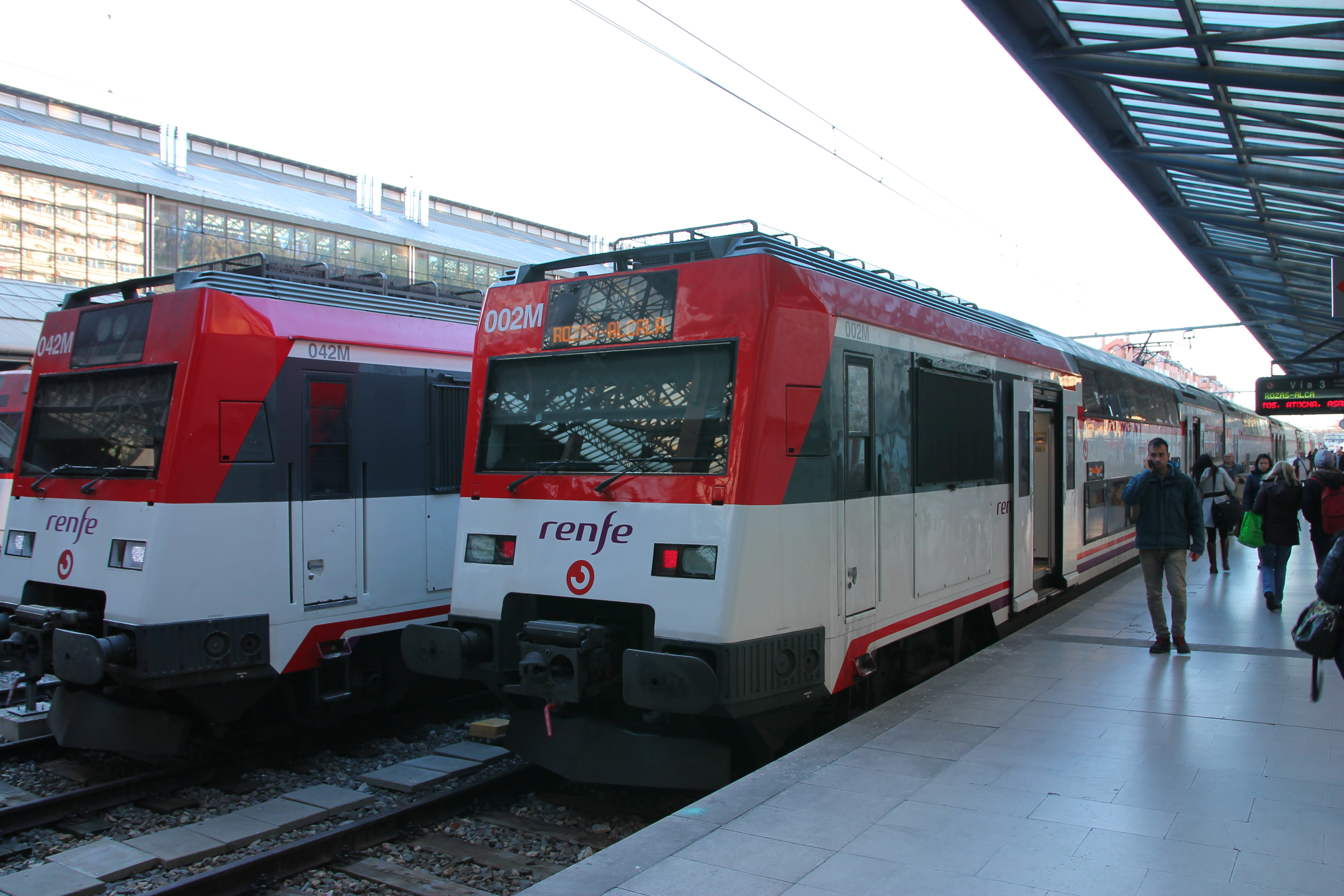 Suburban trains at Príncipe Pío station, Madrid